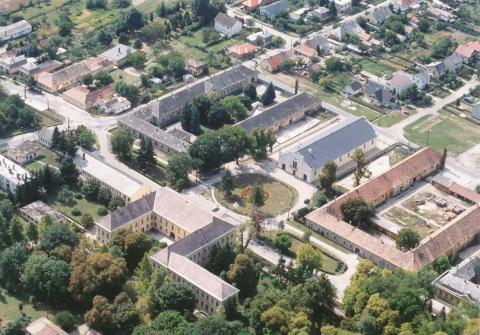 Kisbér, Hungary, aerialphotography